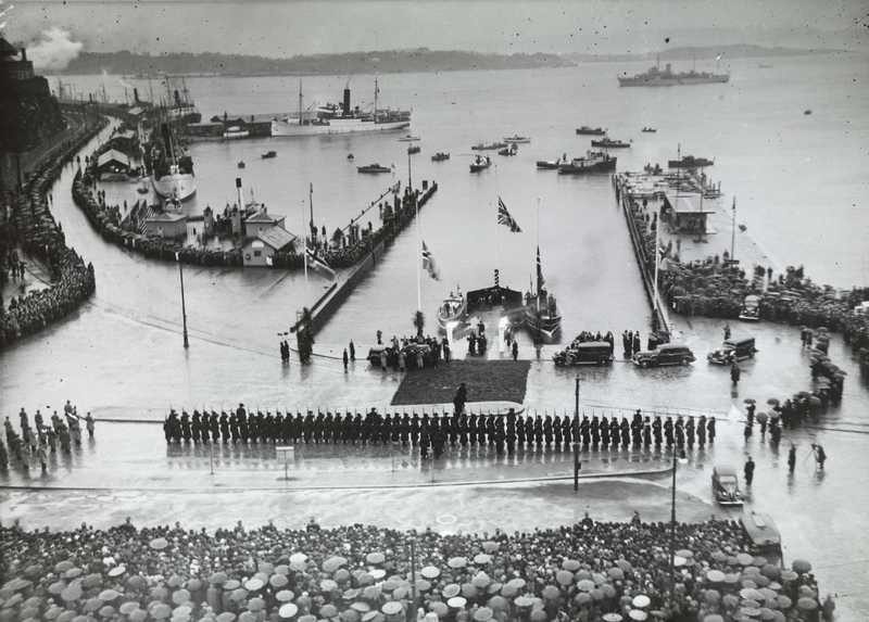 The coming home of Queen Maud. The Queen died in London 20th of November 1938. The British battleship HMS Royal Oak took her back to Norway.